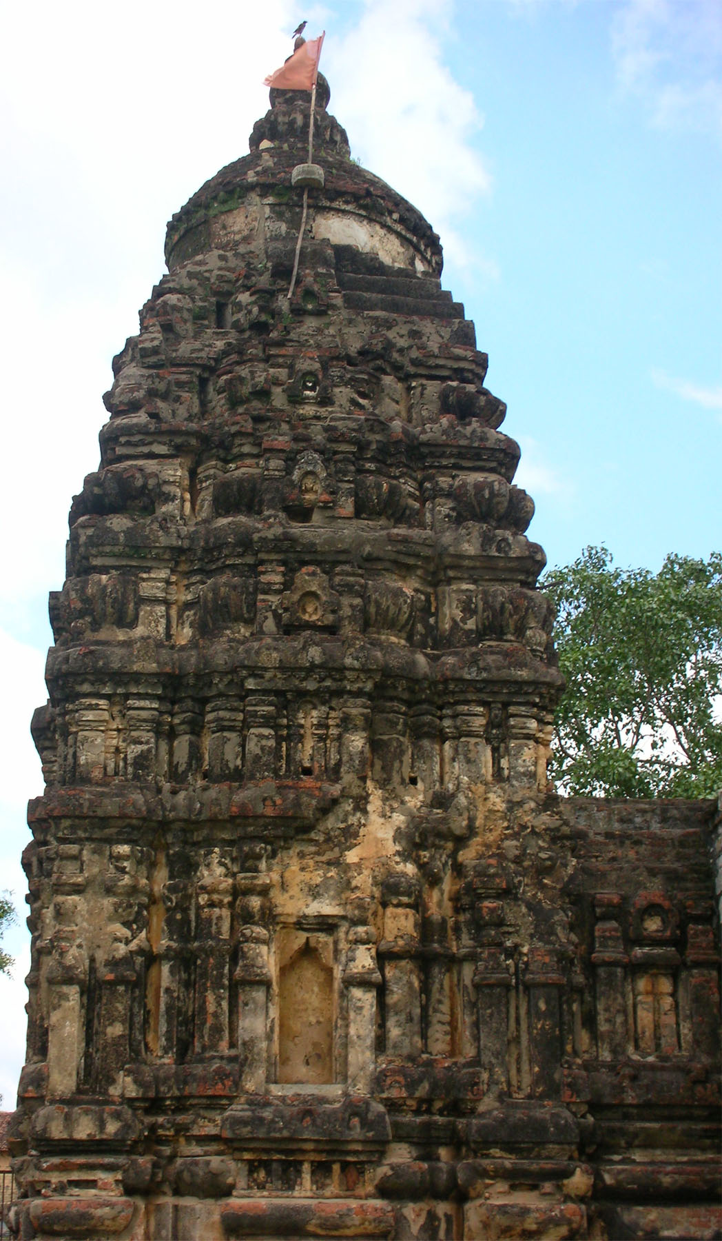 Shabri Temple, Kharod, Chhatisgarh, India.